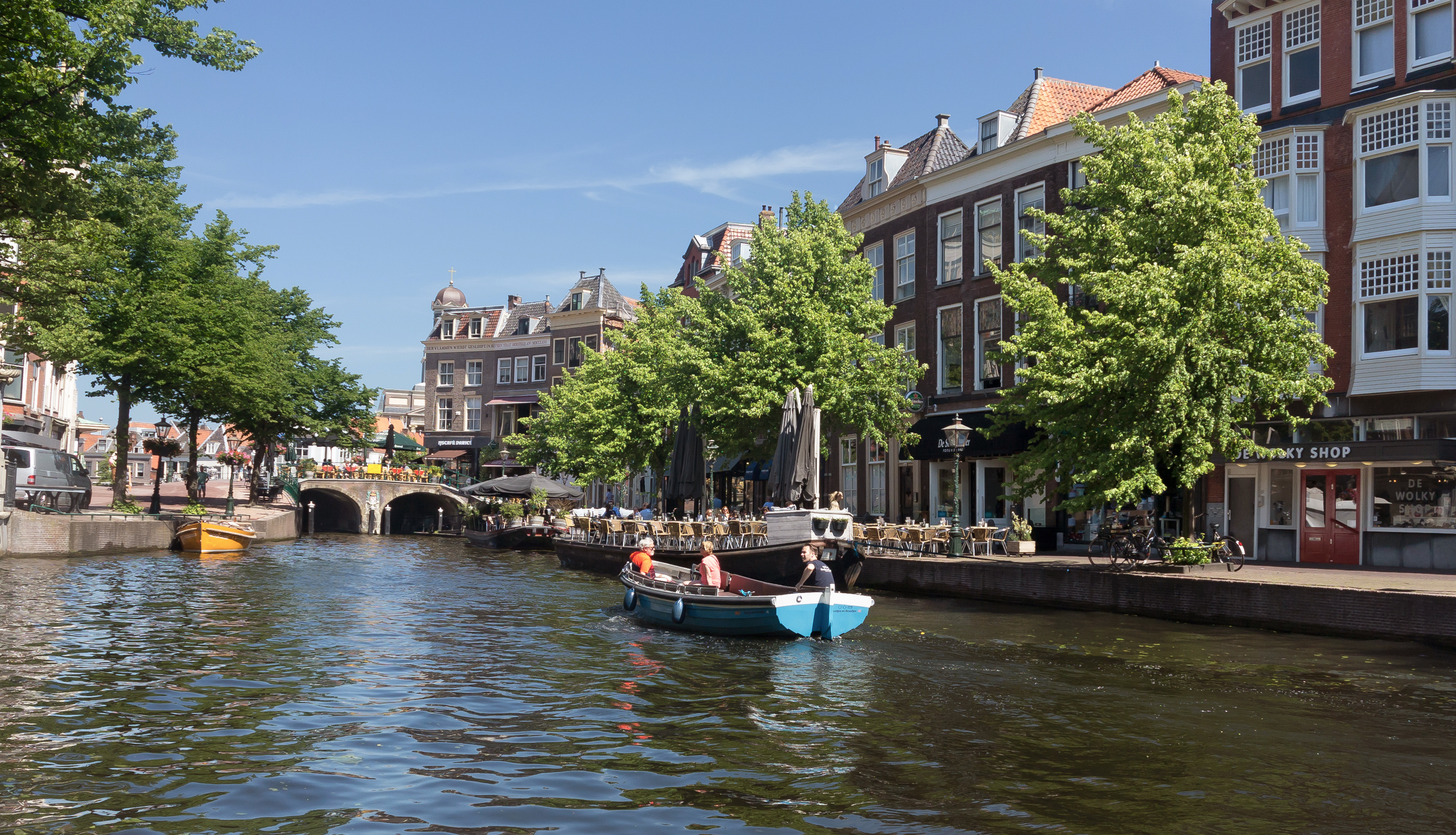 Leiden, boats on the Nieuwe Rijn and drawing bridge (de Visbrug) in the background